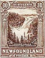 Dominion of Newfoundland 30-cent stamp issued in July 1931, depicting Grand Falls (Churchill Falls), in Labrador.